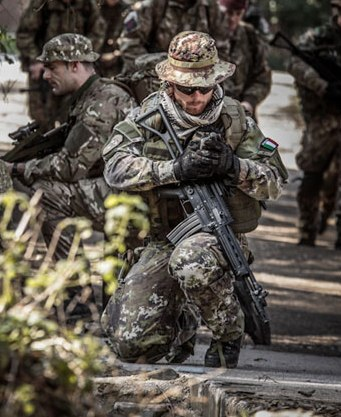 Guastatori Paracadutisti in azione